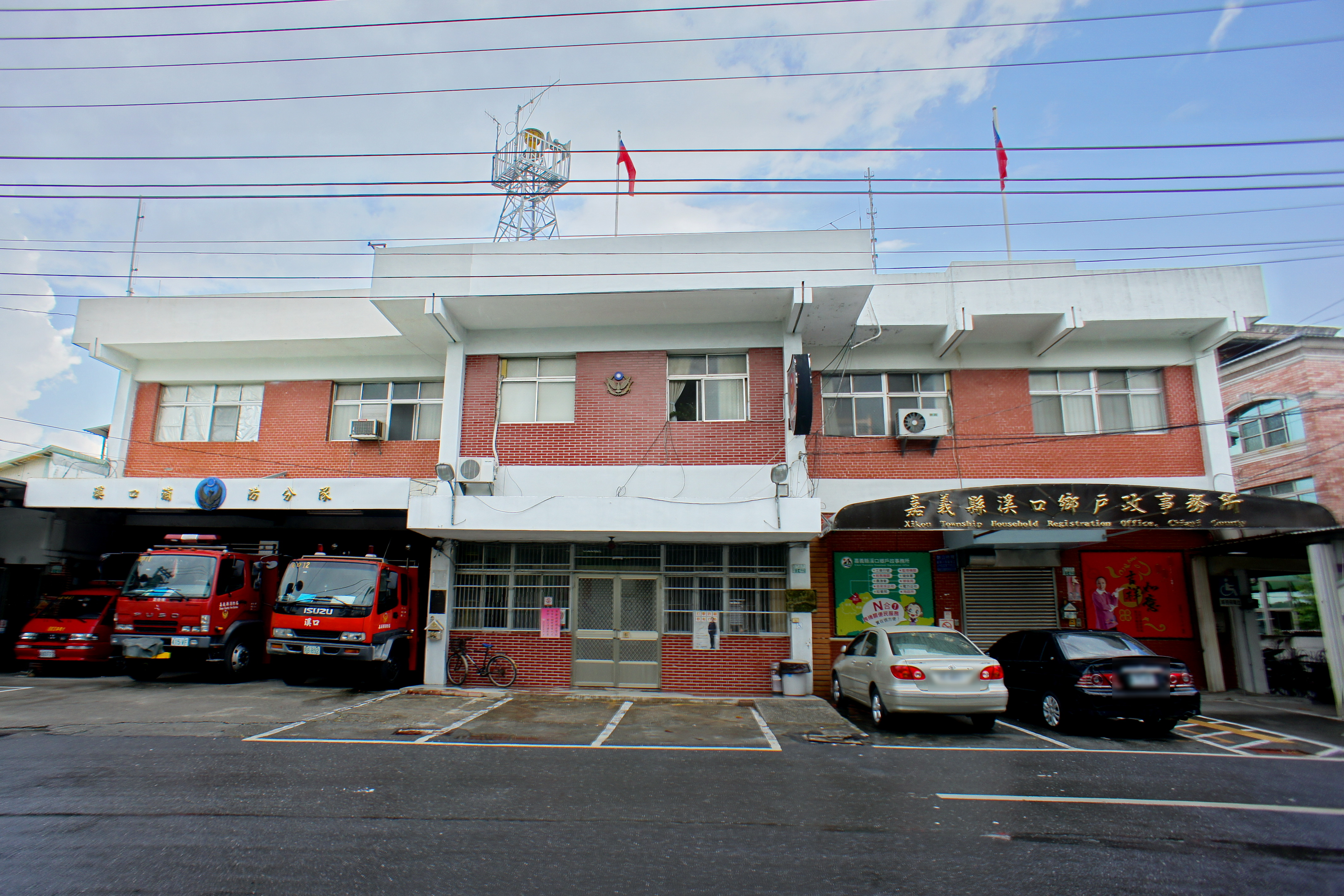 Xikou Fire Station, Xikou Police Station, Xikou Township Household Registration Office, Chiayi County, Taiwan.